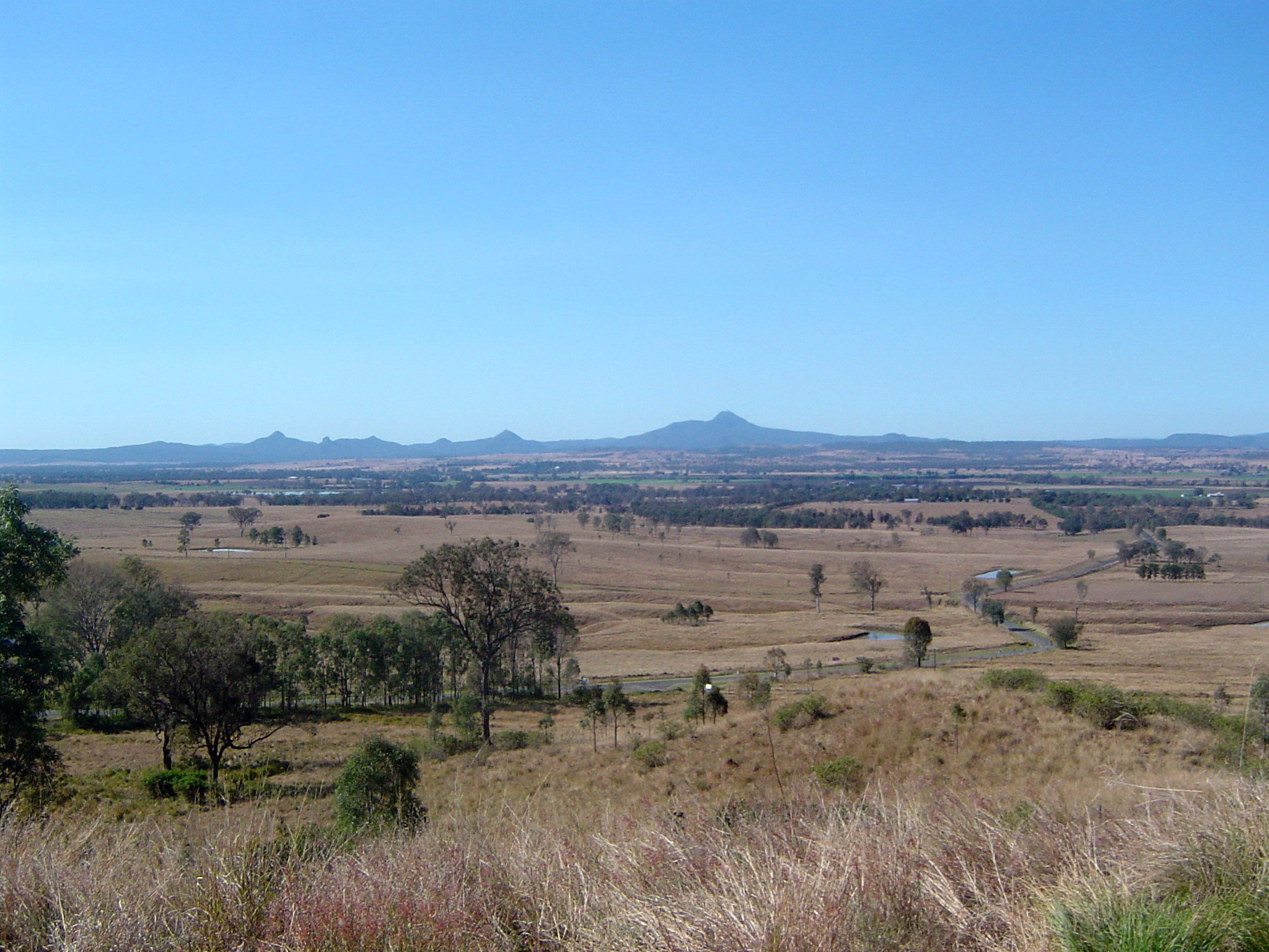 Overlooking Fassifern Valley and Warril View with Teviot Range in the background from Cunninghams Lookout.